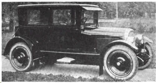 Courier Model D 5-pass Brougham 1922